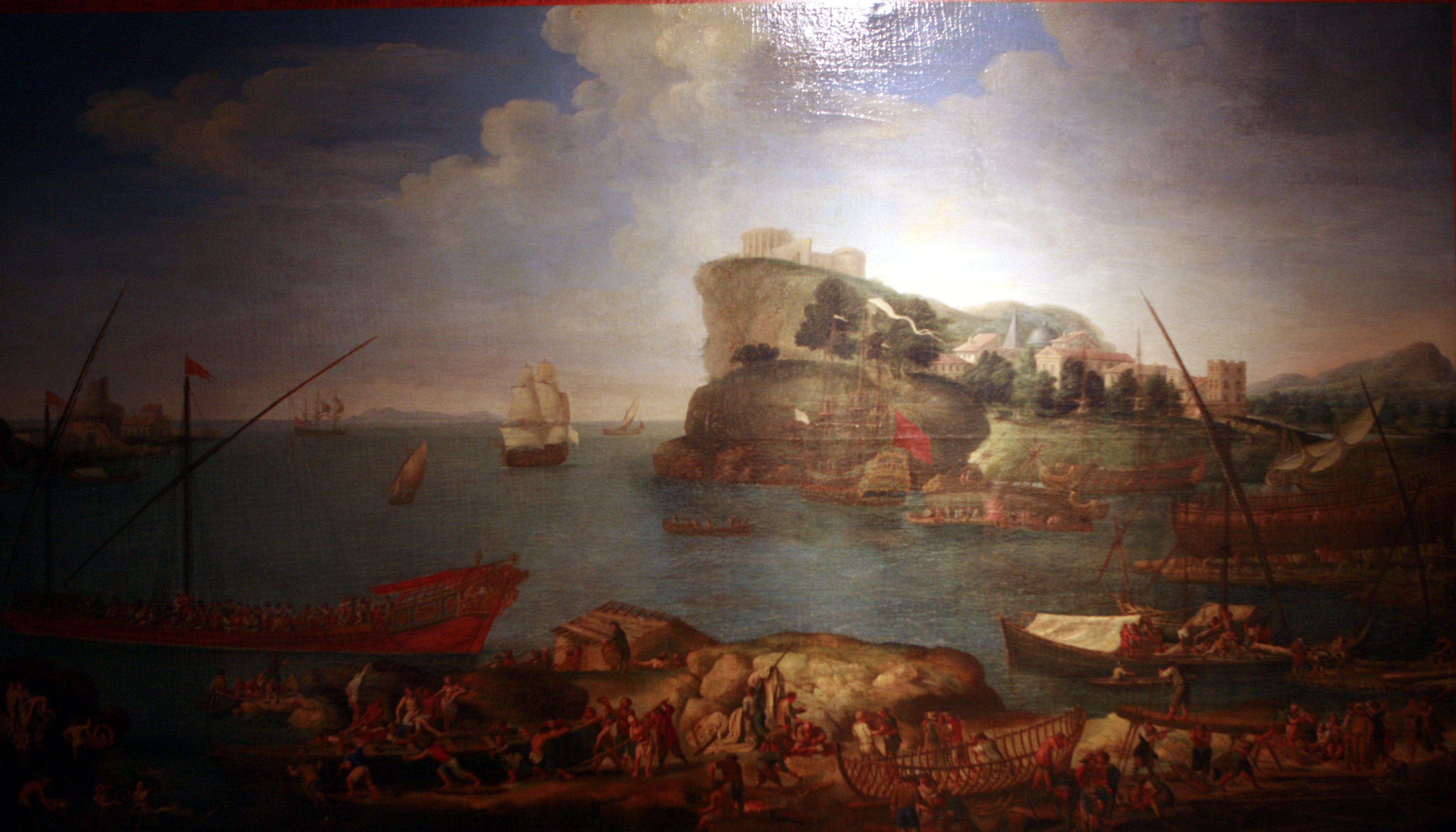 Shipyard (17th century) Oil on canvas, 1708 On display at Toulon naval museum.